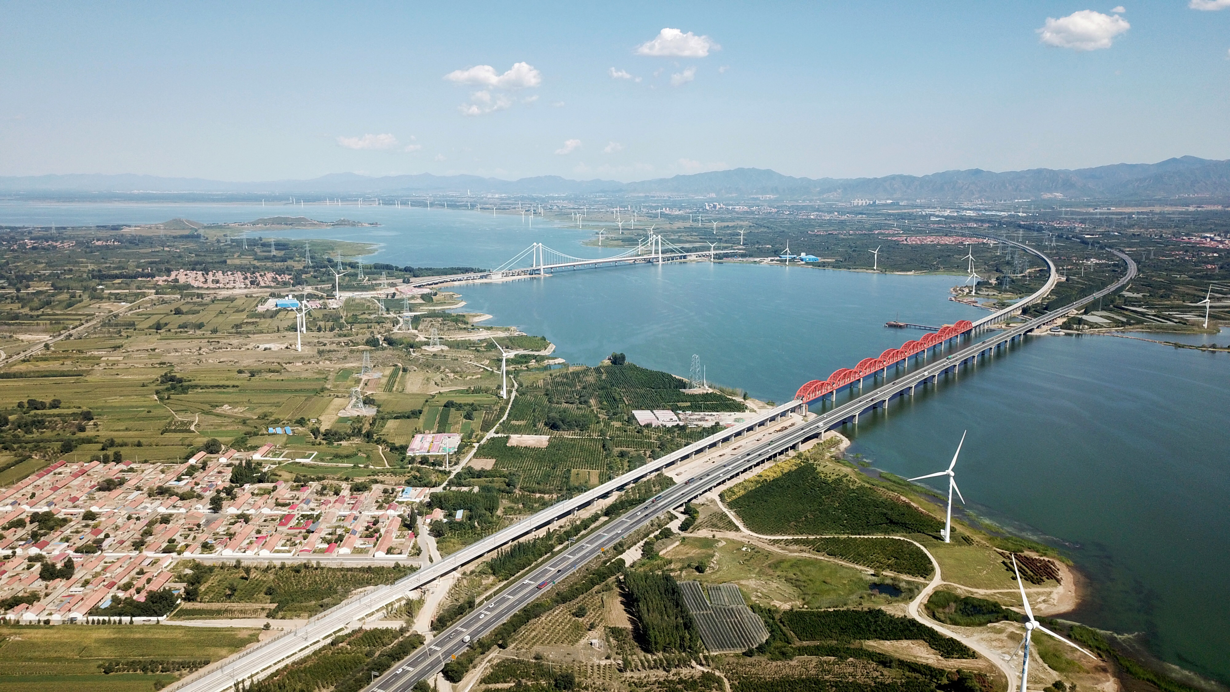 G6 Beijing–Lhasa Expressway bridge(bottom), high-speed train bridge（Red one）, suspension road bridge and Beijing–Baotou railway bridge(next to the suspension bridge) cross the Guanting Reservoir. Si Ying village（left bottom） 中文（中国大陆）: G6京藏高速大桥（最下方），京张高铁特大桥（红色），公路悬索桥（最上）和京包线铁路桥（紧贴着悬索桥）跨越官厅水库。左下为四营村，公路悬索桥左侧为三营村。